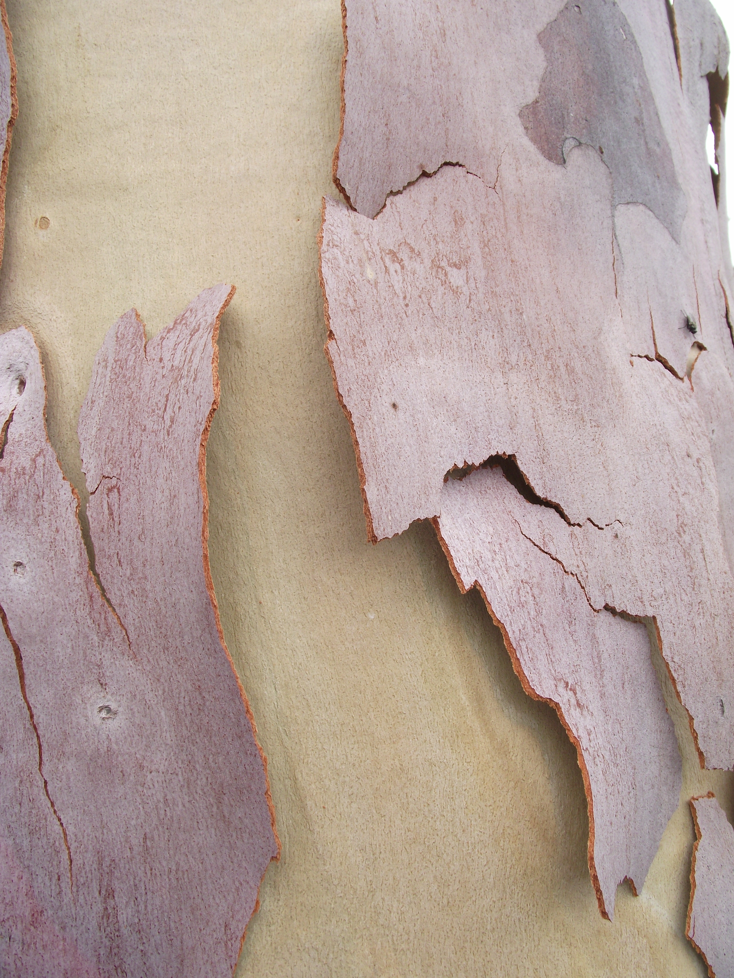 Corymbia citriodora at San Diego Botanic Garden, Encinitas, California, USA. Identified by sign.